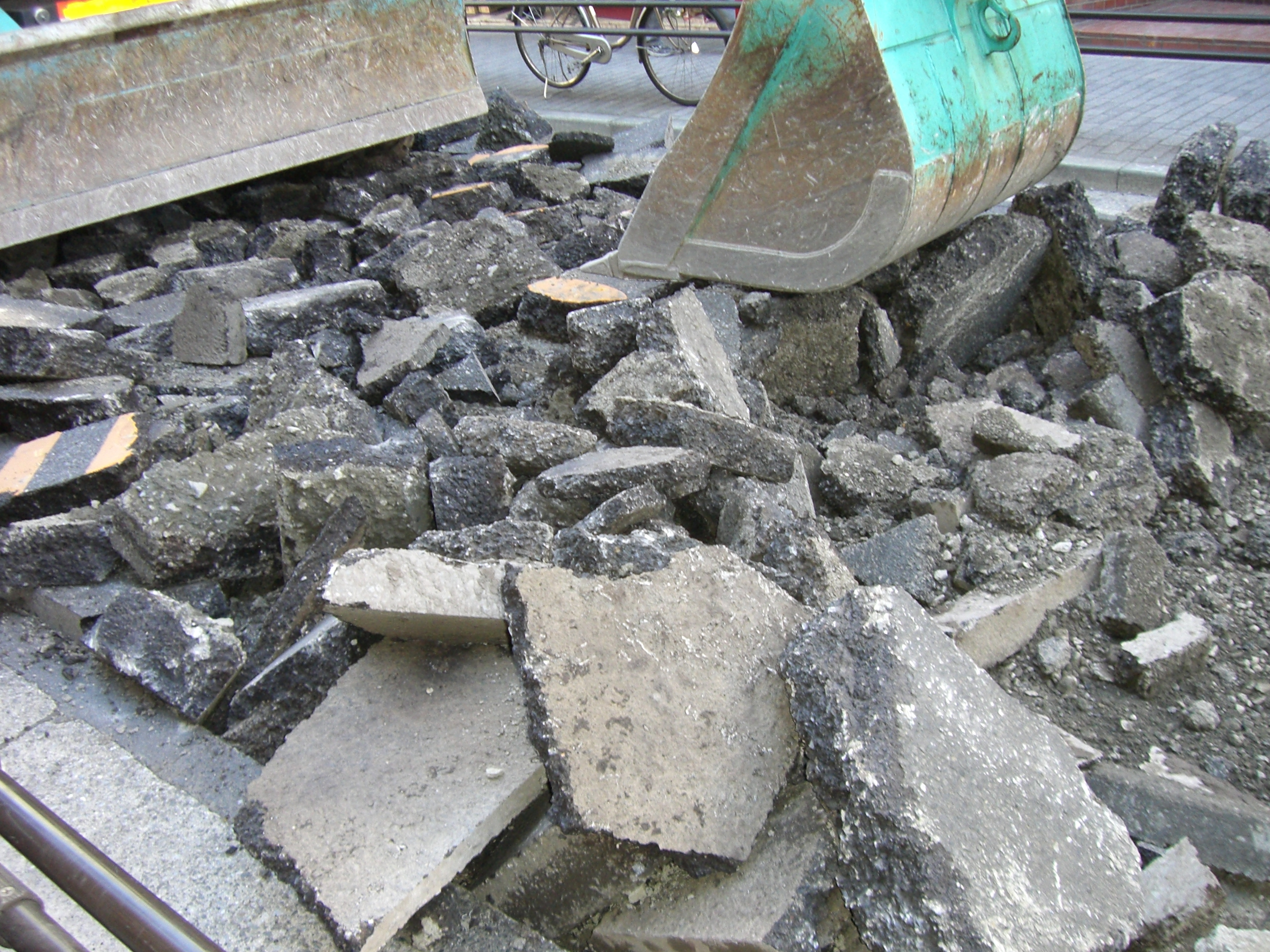 Road where concrete was peeled off. Near Yasukuni Shrine.